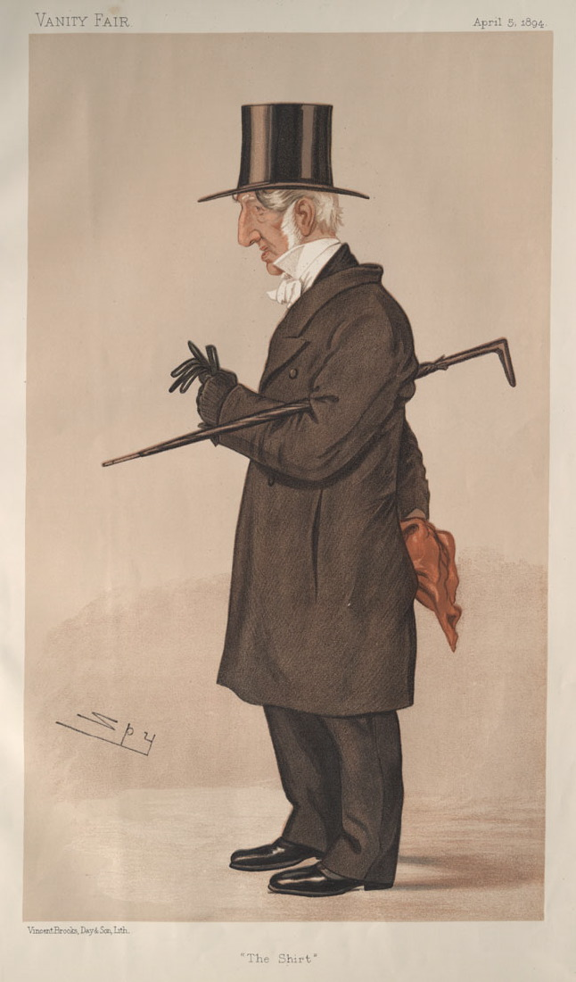 Men of the Day No.582: Caricature of The Warden of New College, Oxford (James Edwards Sewell). Caption reads: "The Shirt"